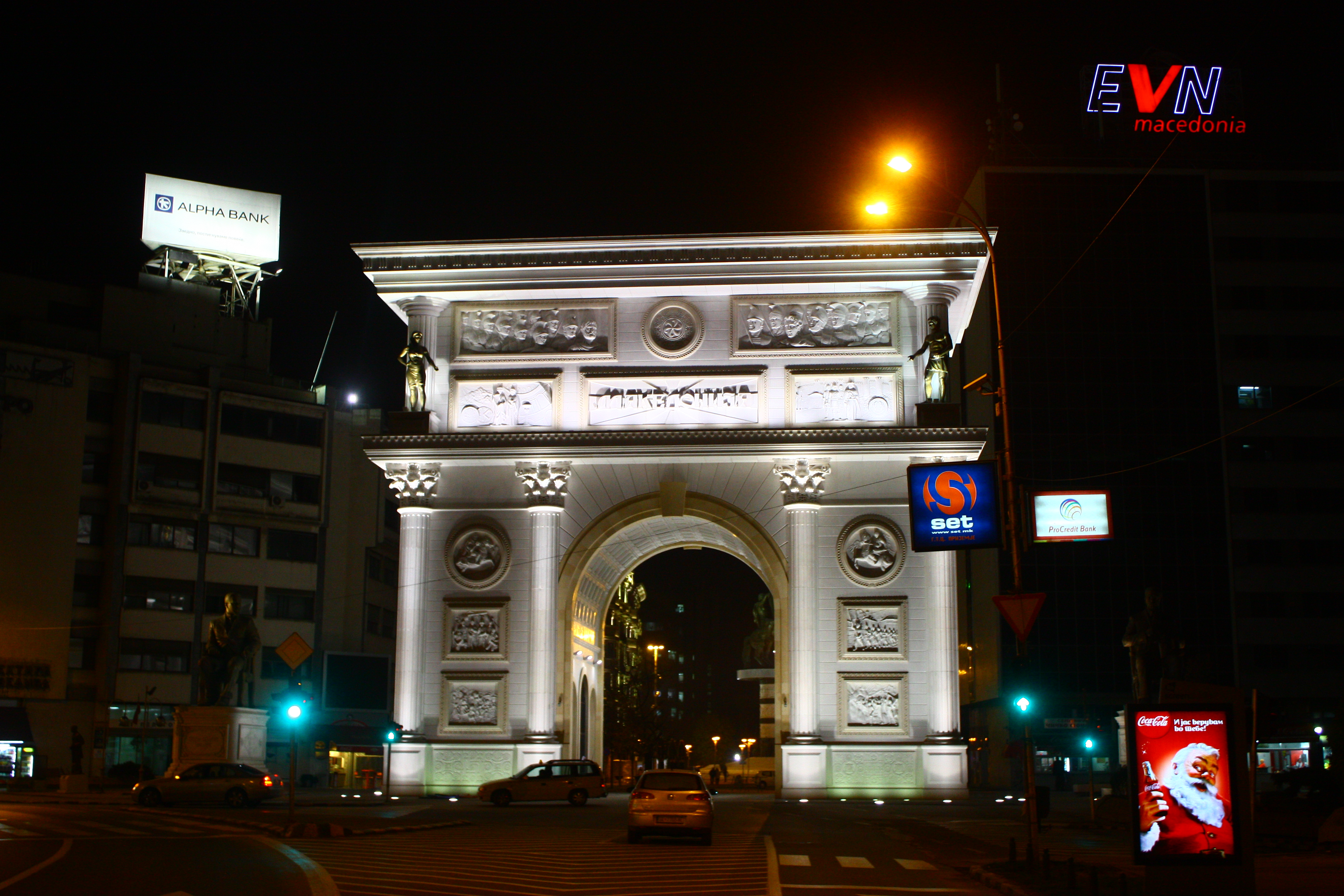 Triumphal arch "Porta Macedonia" in Skopje, Macedonia This image is uploaded as part of the picture contest Wiki Loves Cultural Heritage in Macedonia 2013. English | македонски | +/−